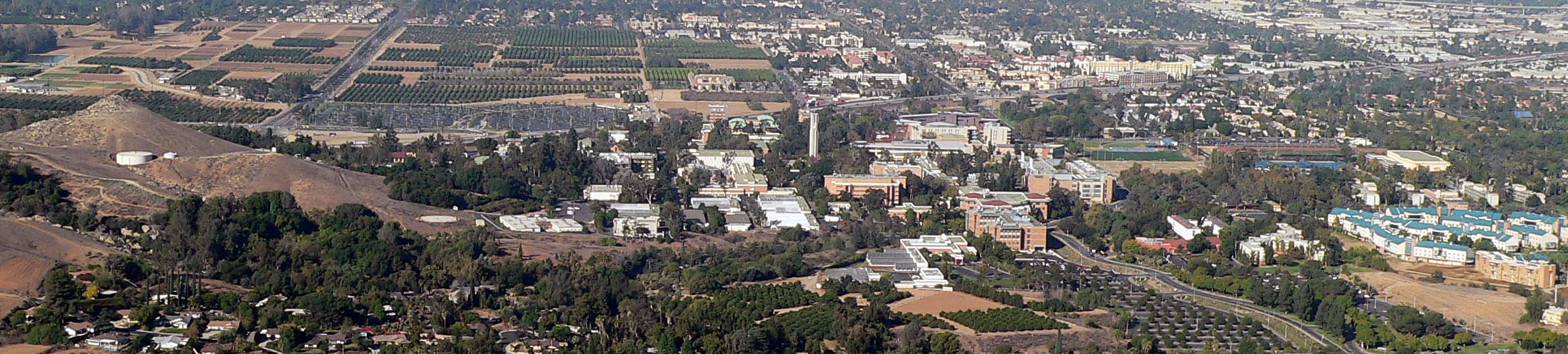 View_of_UC Riverside_from_Box_Springs(cropped from flikr photo)